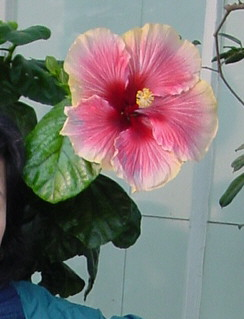 Hibicus 10" diameter, found in SF Conservatory of flowers Part of a person's face and shoulder at the lower left of the picture provides a scale to show the size of the blossom. Not a "Rose of Sharon"—this plant appears to be a cultivar or hybrid of Hibiscus rosa-sinensis or Chinese hibiscus (Marshman 06:36, 12 Jul 2004 (UTC)).